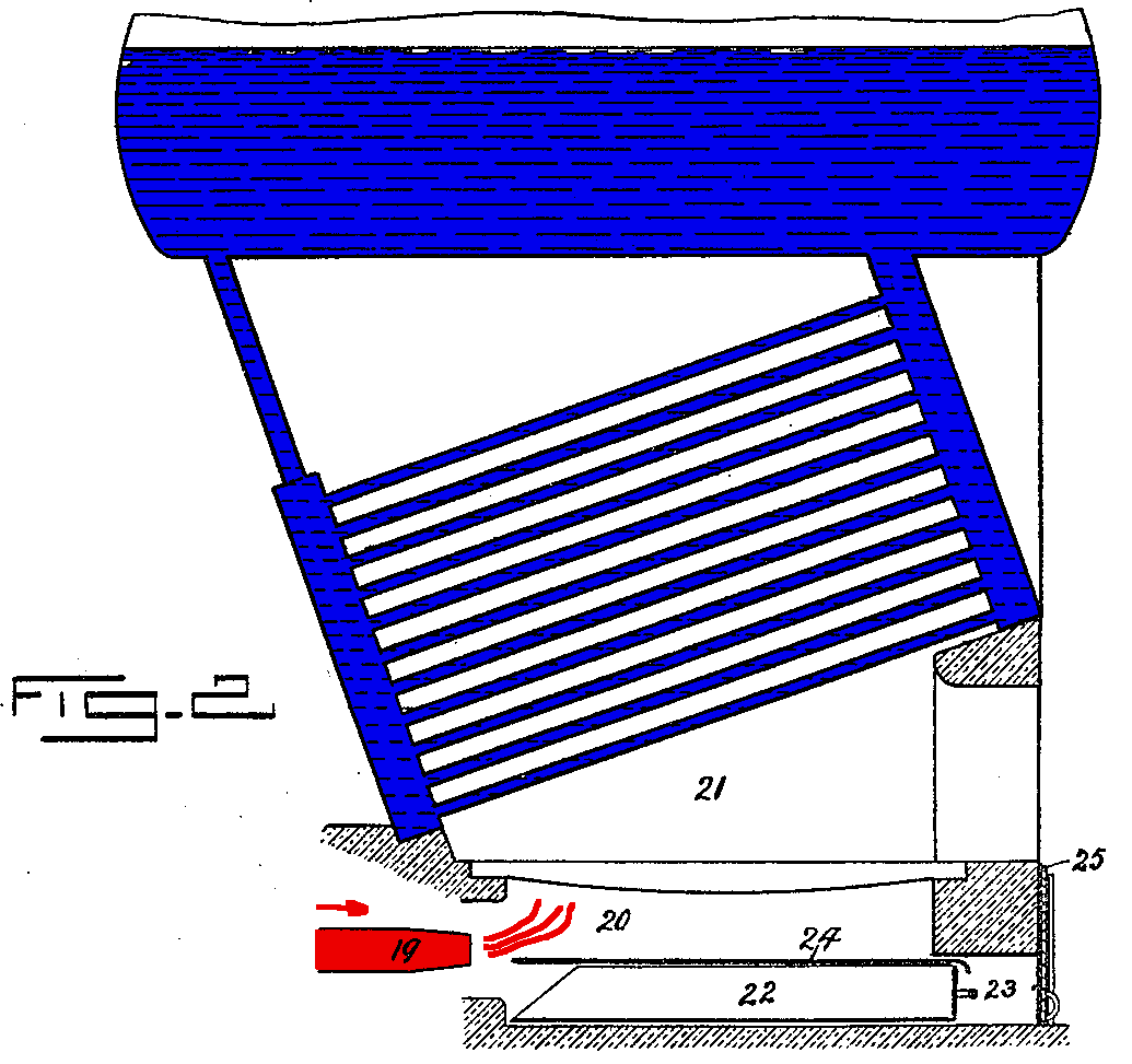 Internal combustion engine